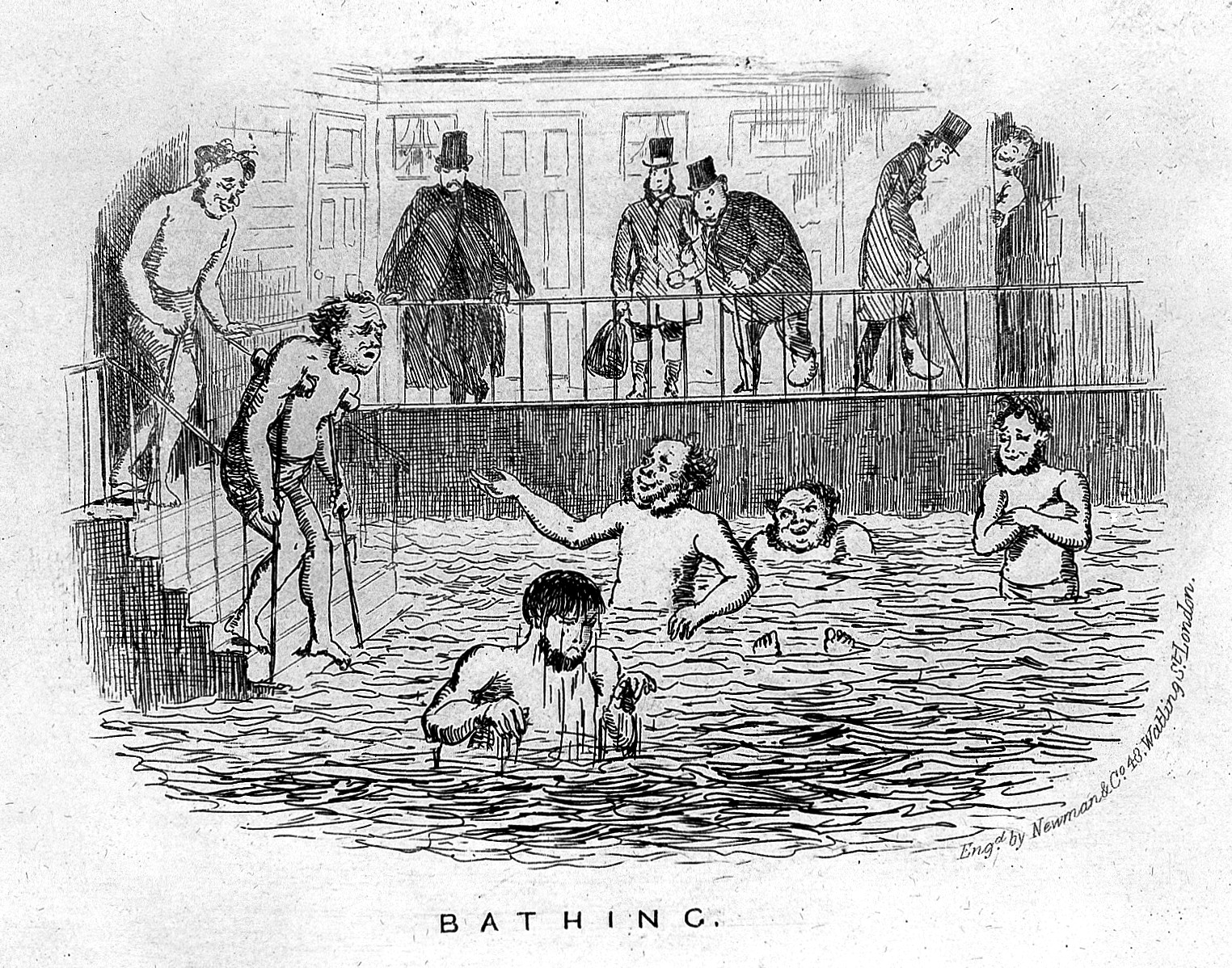 Plate captioned "Bathing" showing men in a pool. Iconographic Collections Keywords: Balneotherapy